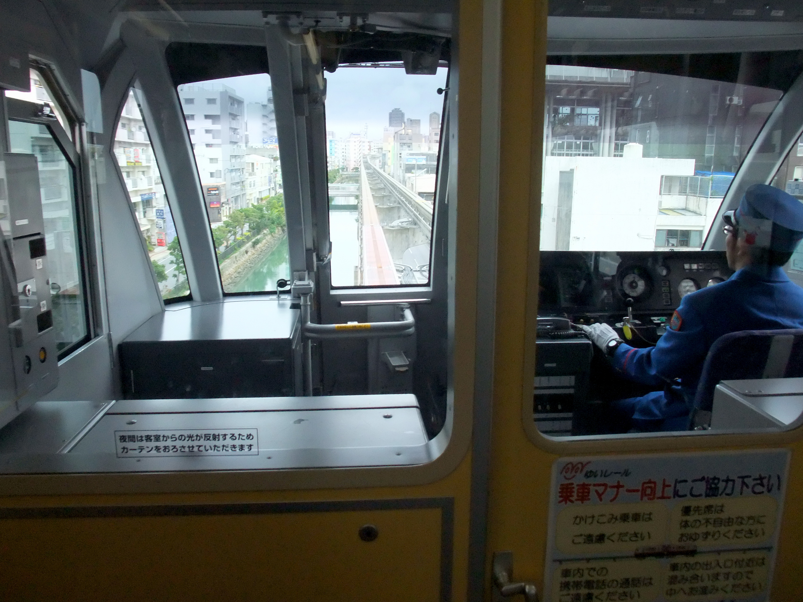 The driving cab of Okinawa Monorail 1000 series.